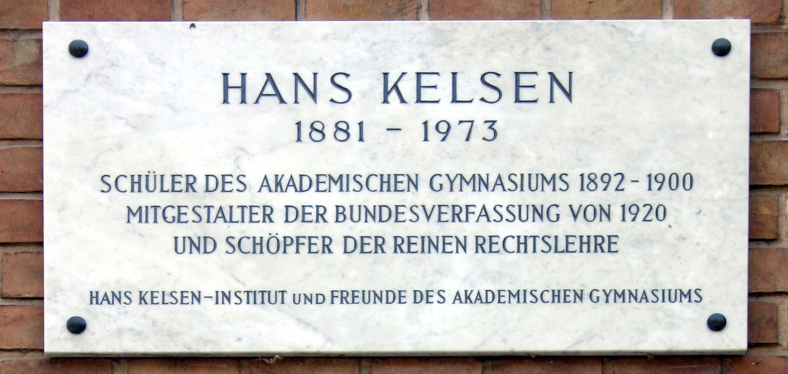 Akademisches Gymnasium, Vienna